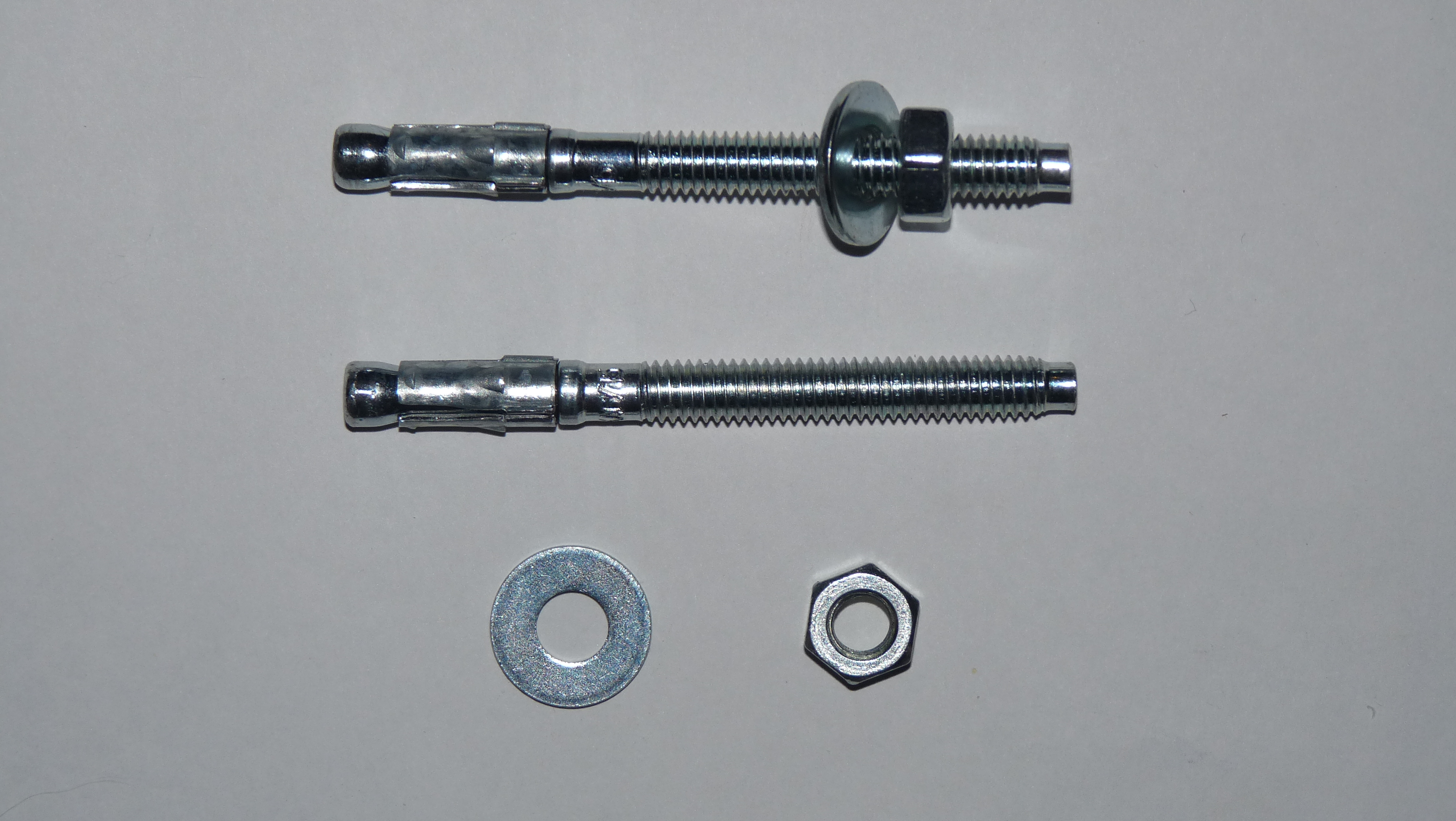 Anchor bolts for fixing heavy loads in concrete. You can see them, for example, in sport halls, where it is need to handle heavy equipment.